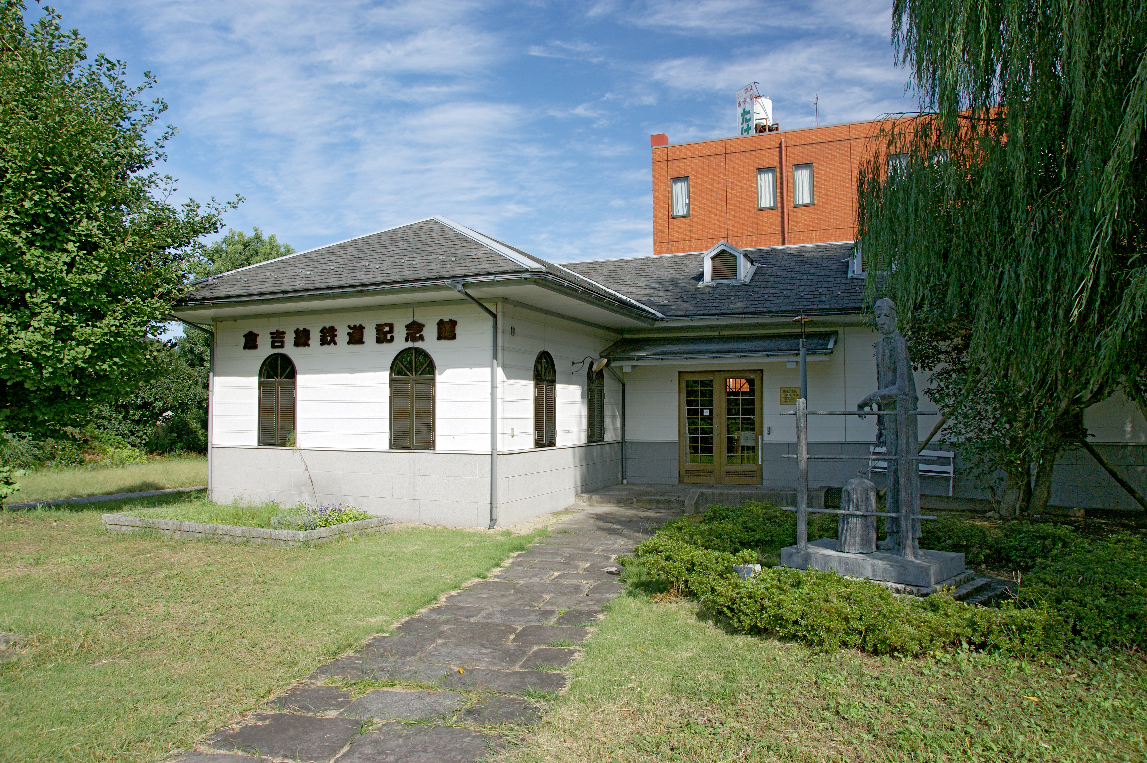 Kurayoshi line Railway Memorial in Kurayoshi, Tottori prefecture, Japan